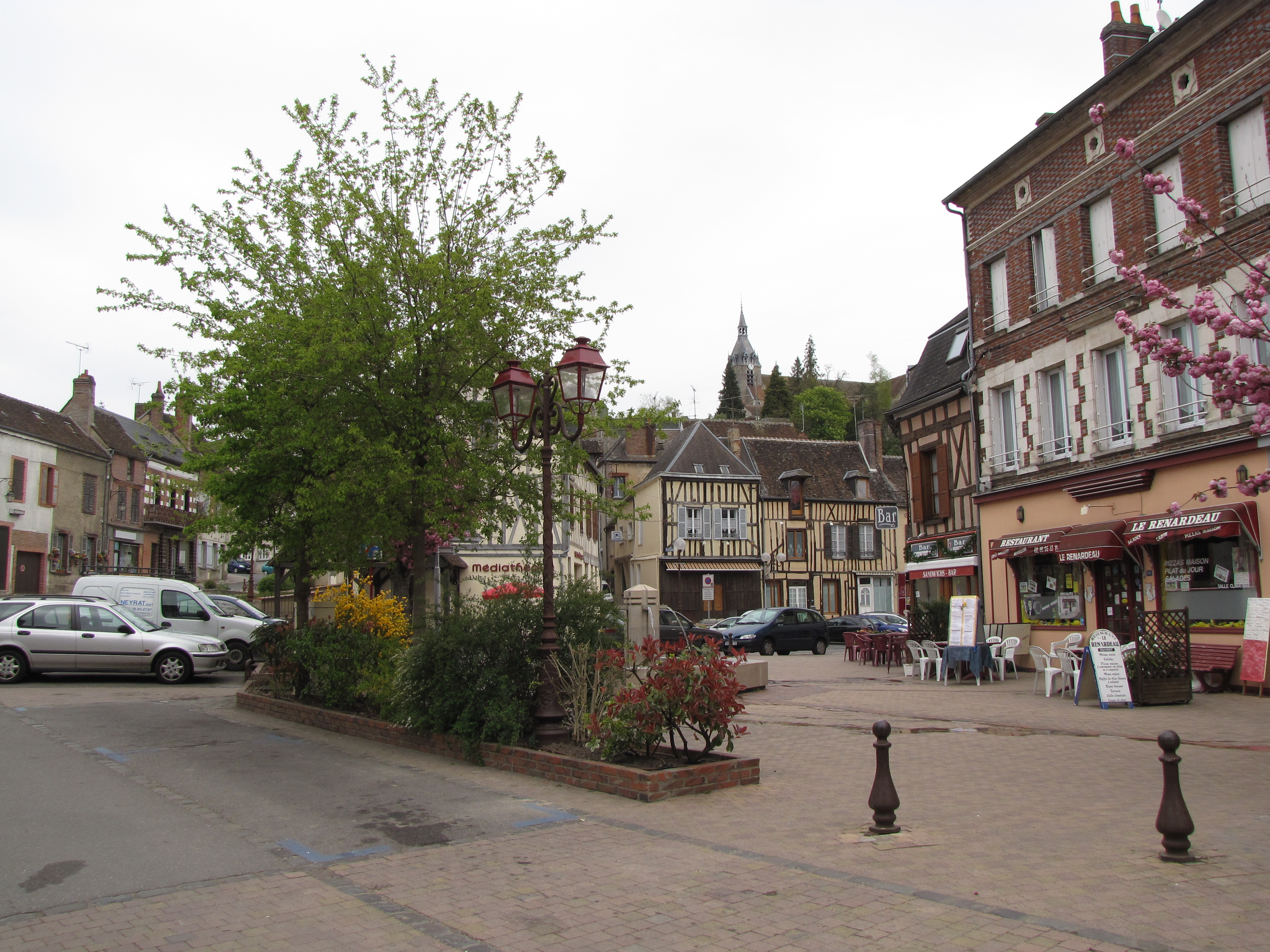 Place de la République, the main place in town, at the crossing of rue du Général de Gaulle (D943) and rues Étienne Dolet / Aristide Briand. The restaurant "Le Sauvage" is at the begining of Rue Étienne Dolet which leads to the mairie. On the right-hand side of the Médiathèque in the background, we can just see the begining of Rue de la Gargouille.